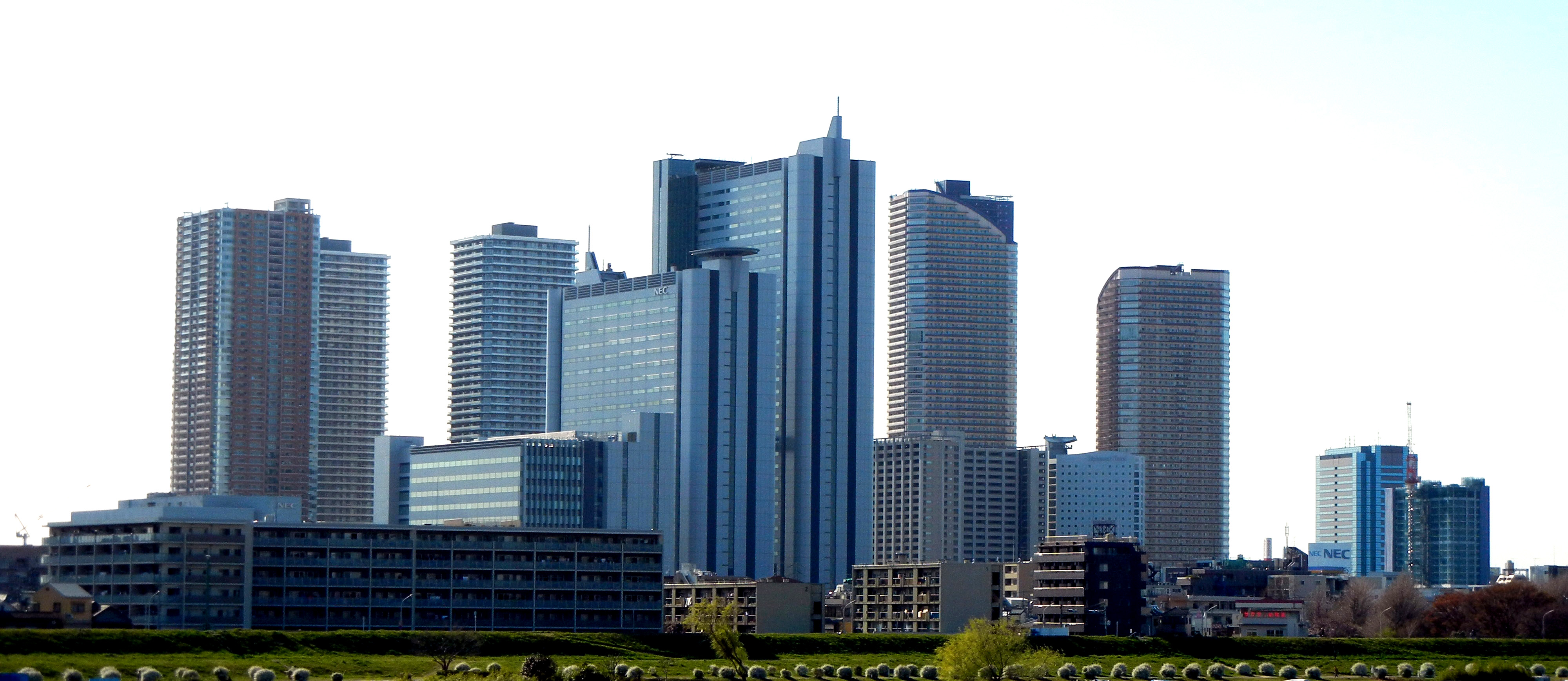 Musashi-Kosugi